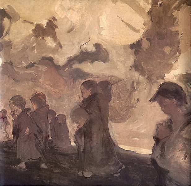 Children's crusader